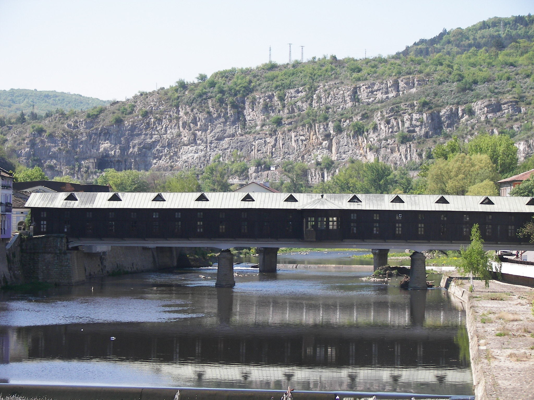 Lovech